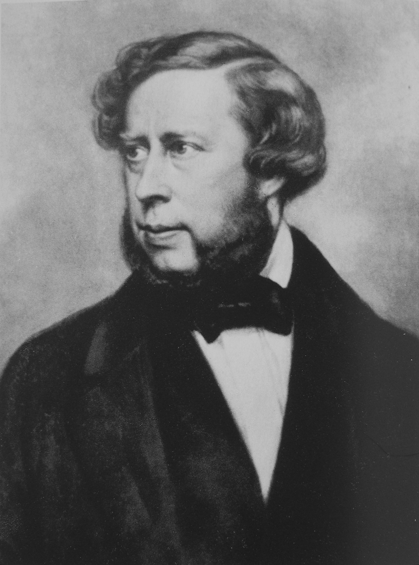 Self portrait of the German Painter Julius Schoppe (1795–1868); Portraits, Landscapes, Dekorative Painting, History